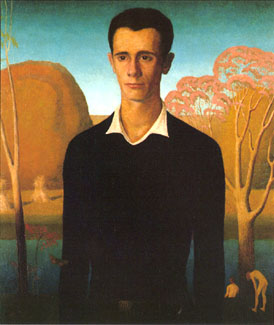 Arnold comes of age